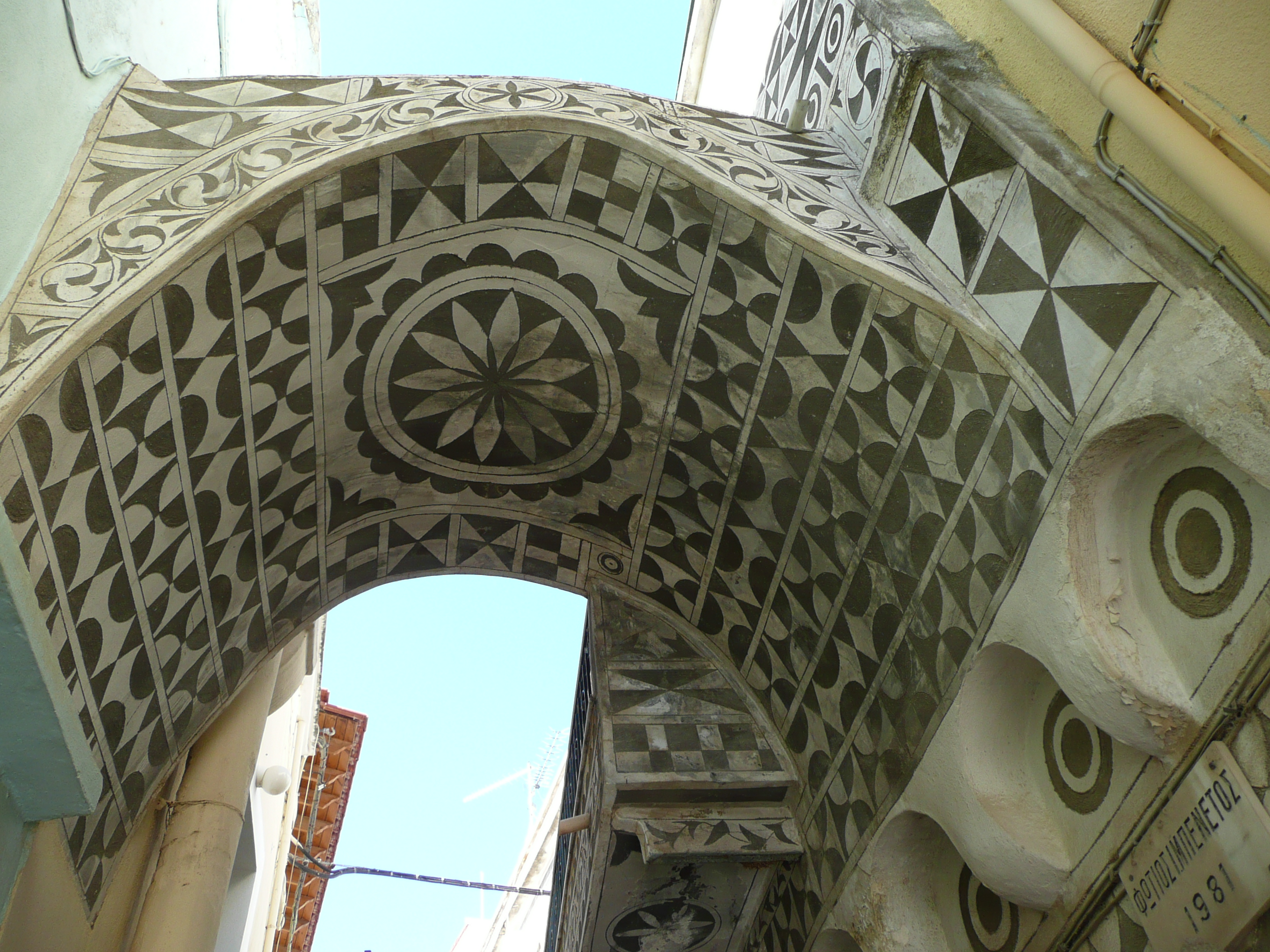 Arch at the village of Pyrgi, Chios